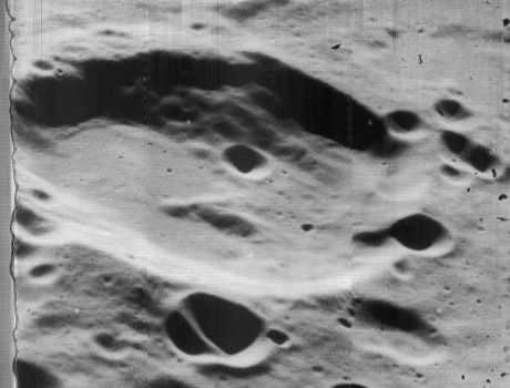 Oblique view of Galois A (within larger Galois), on the far side of the moon, facing west. The irregular gray line at left edge is a blemish on the original.